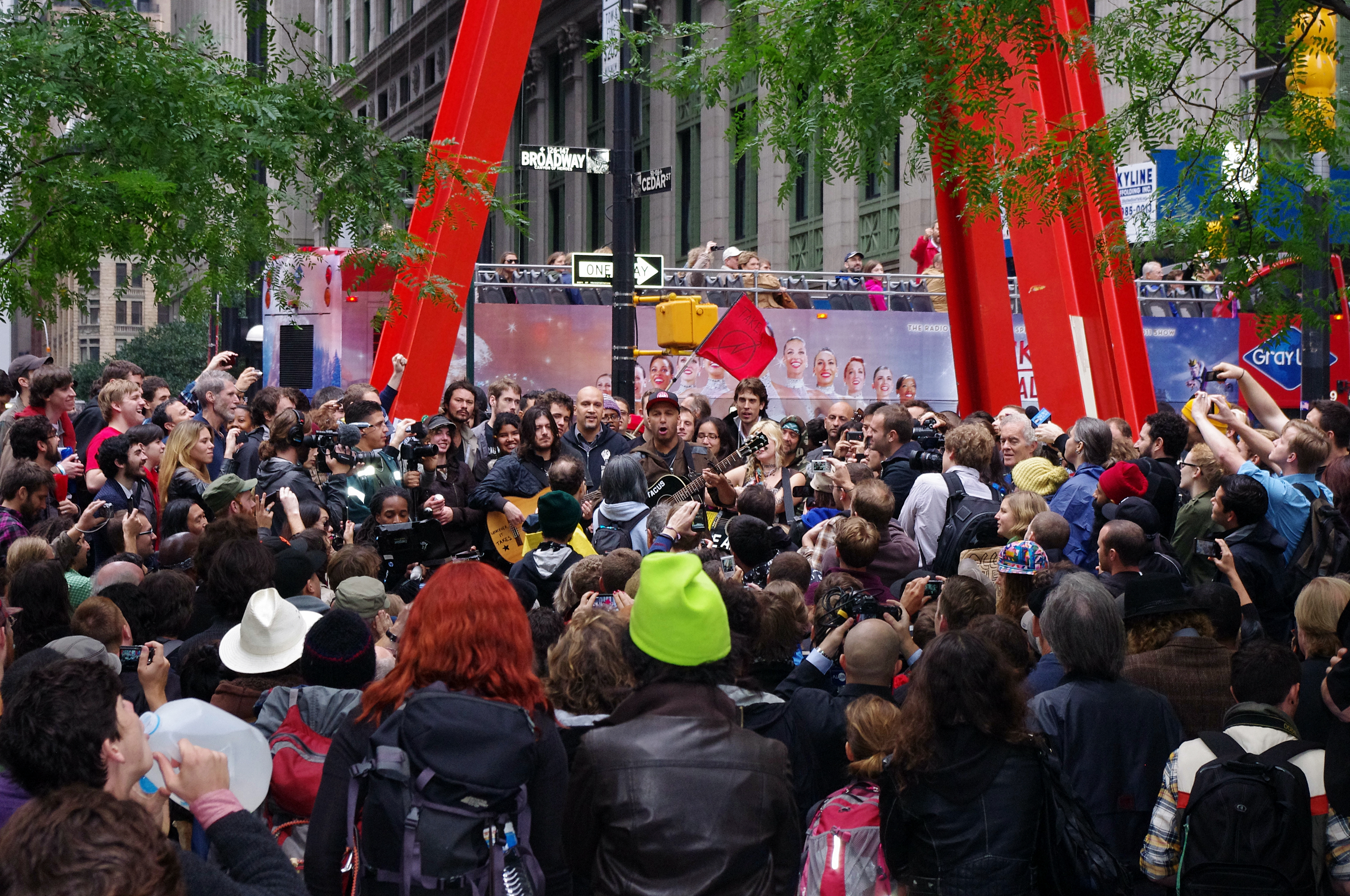 Rage Against the Machine guitarist Tom Morello playing a set on Day 28 of Occupy Wall Street in New York.